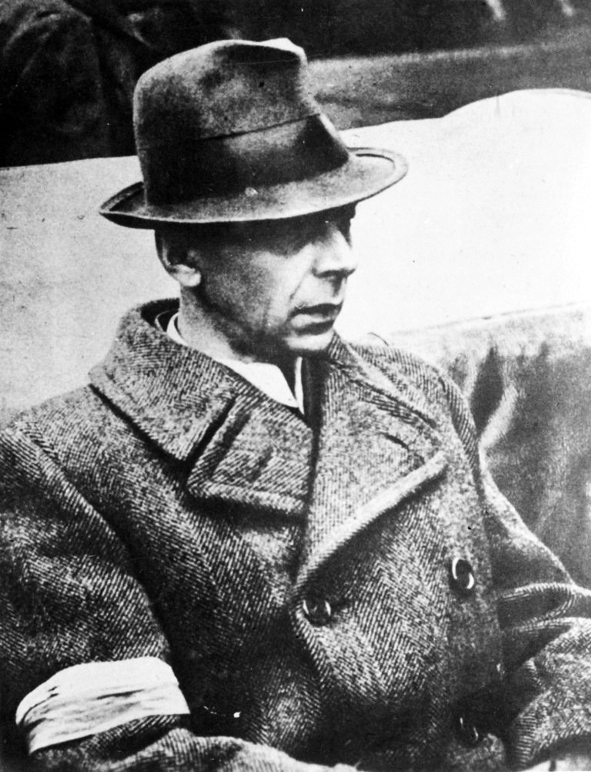 Tadeusz Bór-Komorowski (1895-1966) before signing the document of capitulation of the Polish forces (Warszawski Korpus Armii Krajowej or Home Army Warsaw Corps) in the German headquarters in Ożarów